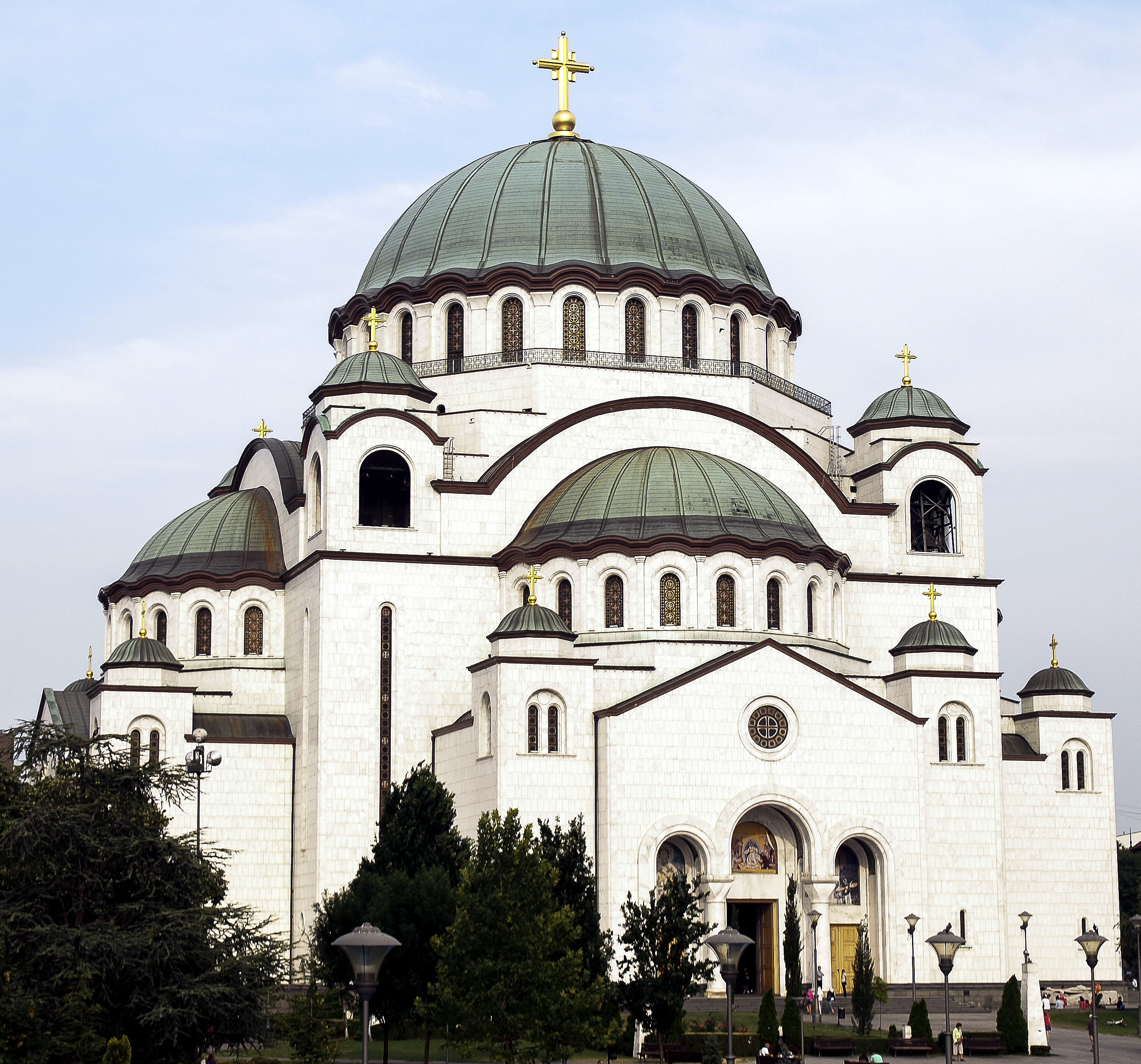 Serbian-orthodox temple "Hram Svetog Save" on Vracar hill in Belgrade, Serbia